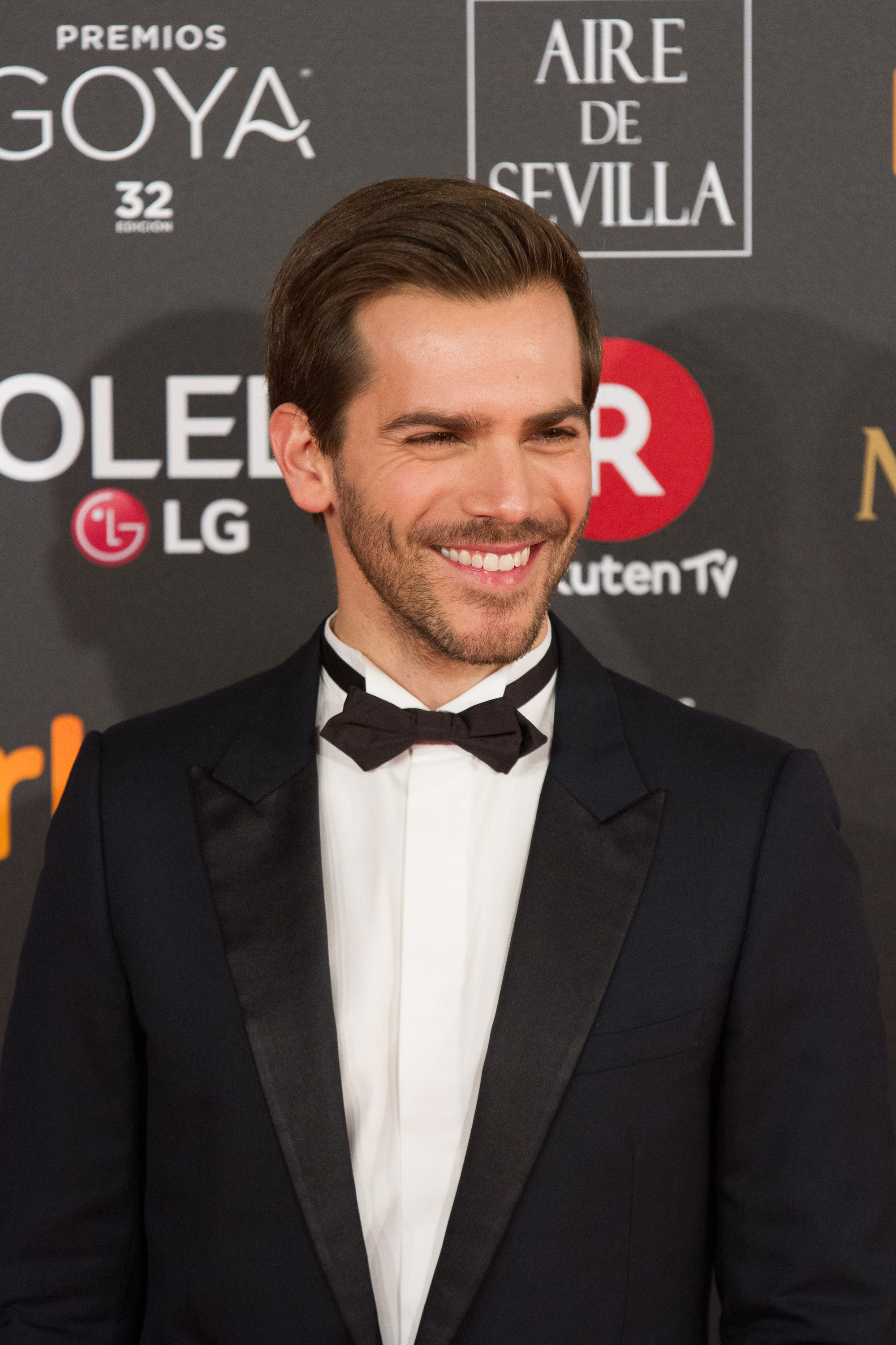 32nd Goya Awards, 2018.